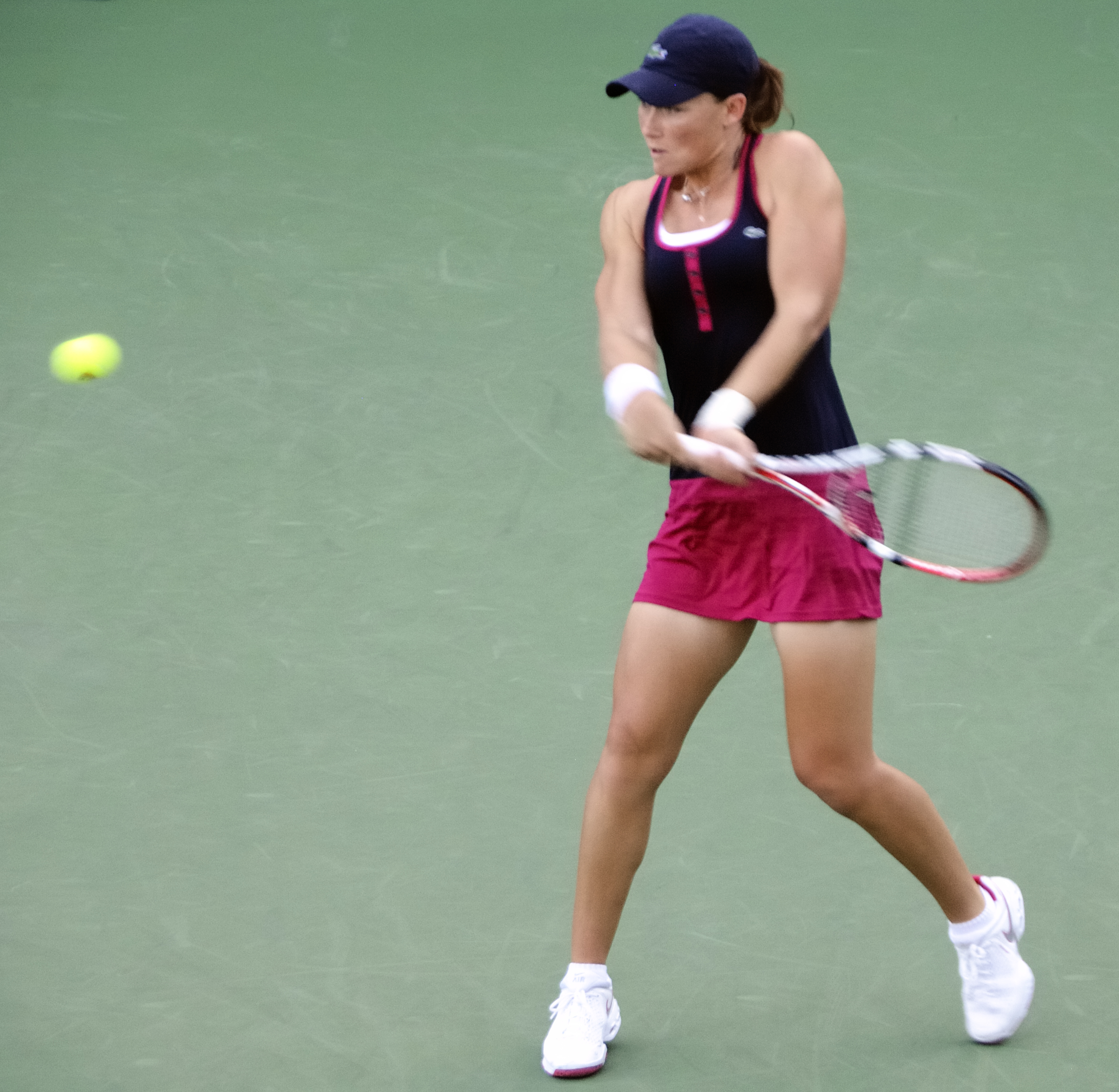 Samantha Stosur at the 2009 US Open